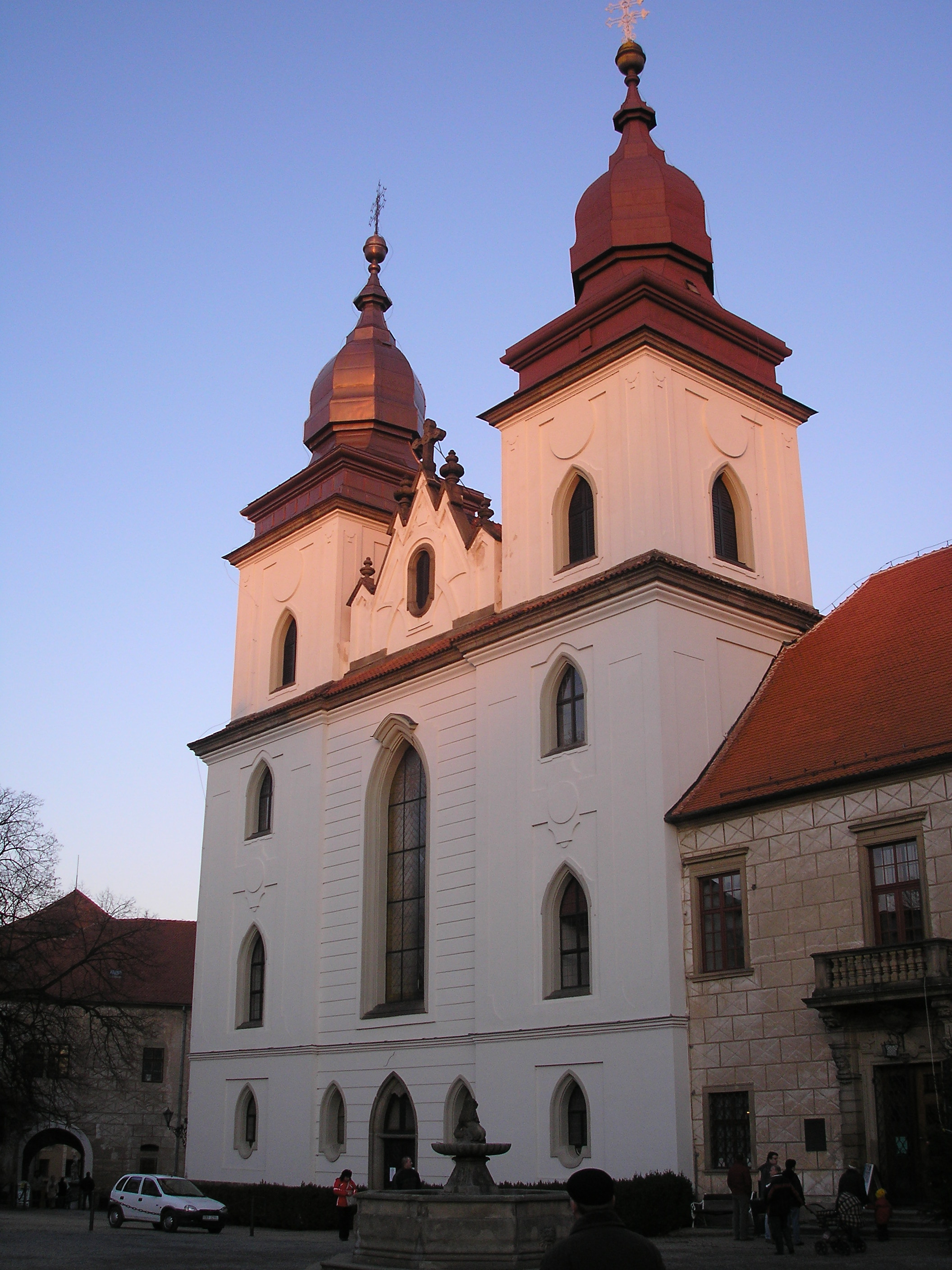 Třebíč-Podklášteří. St Procopius' Basilica. Western frontage